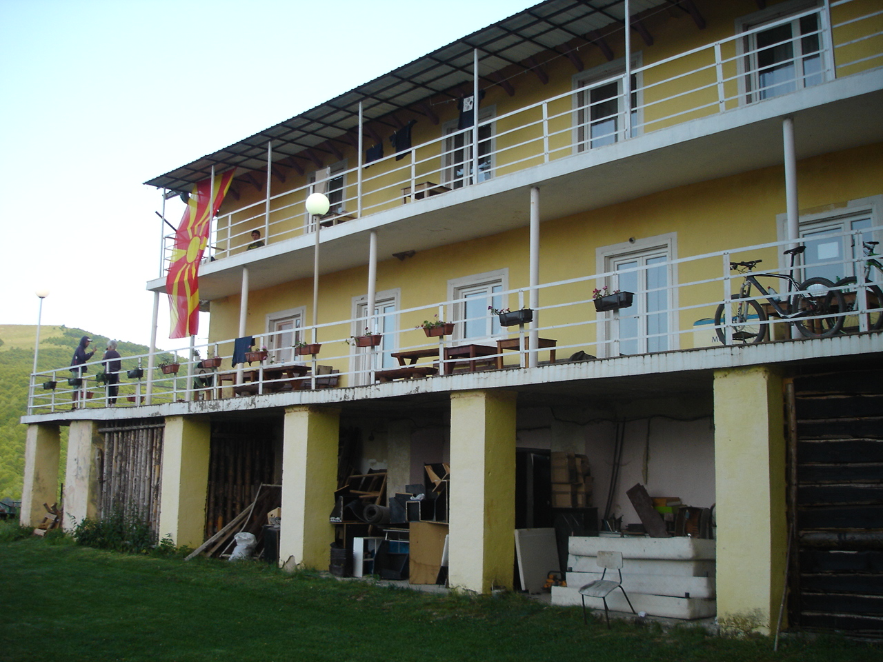 Mountain hut Karadzica, Macedonia